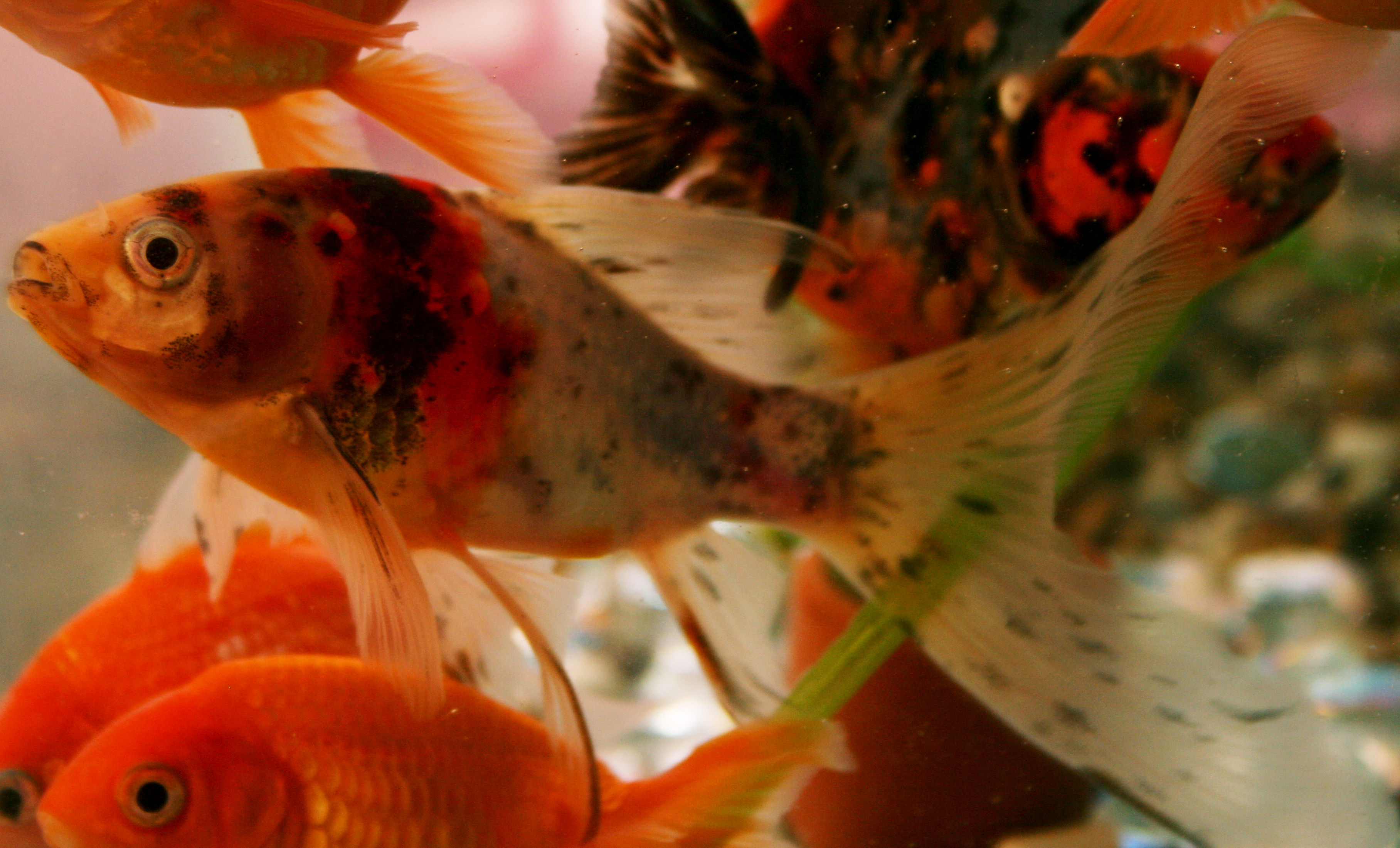 Male Shubukin.